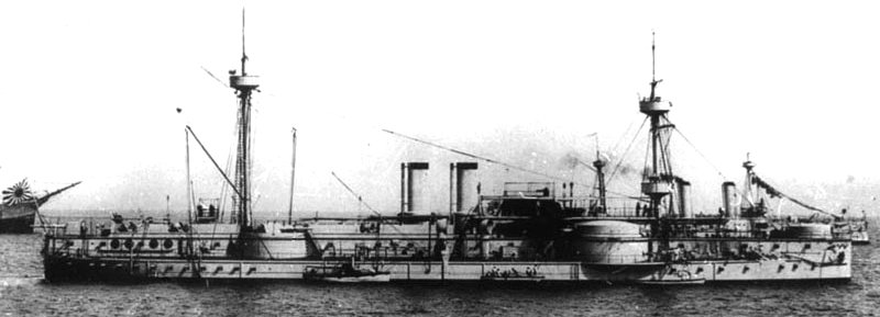 IJN Chen yuen(Chin'en)